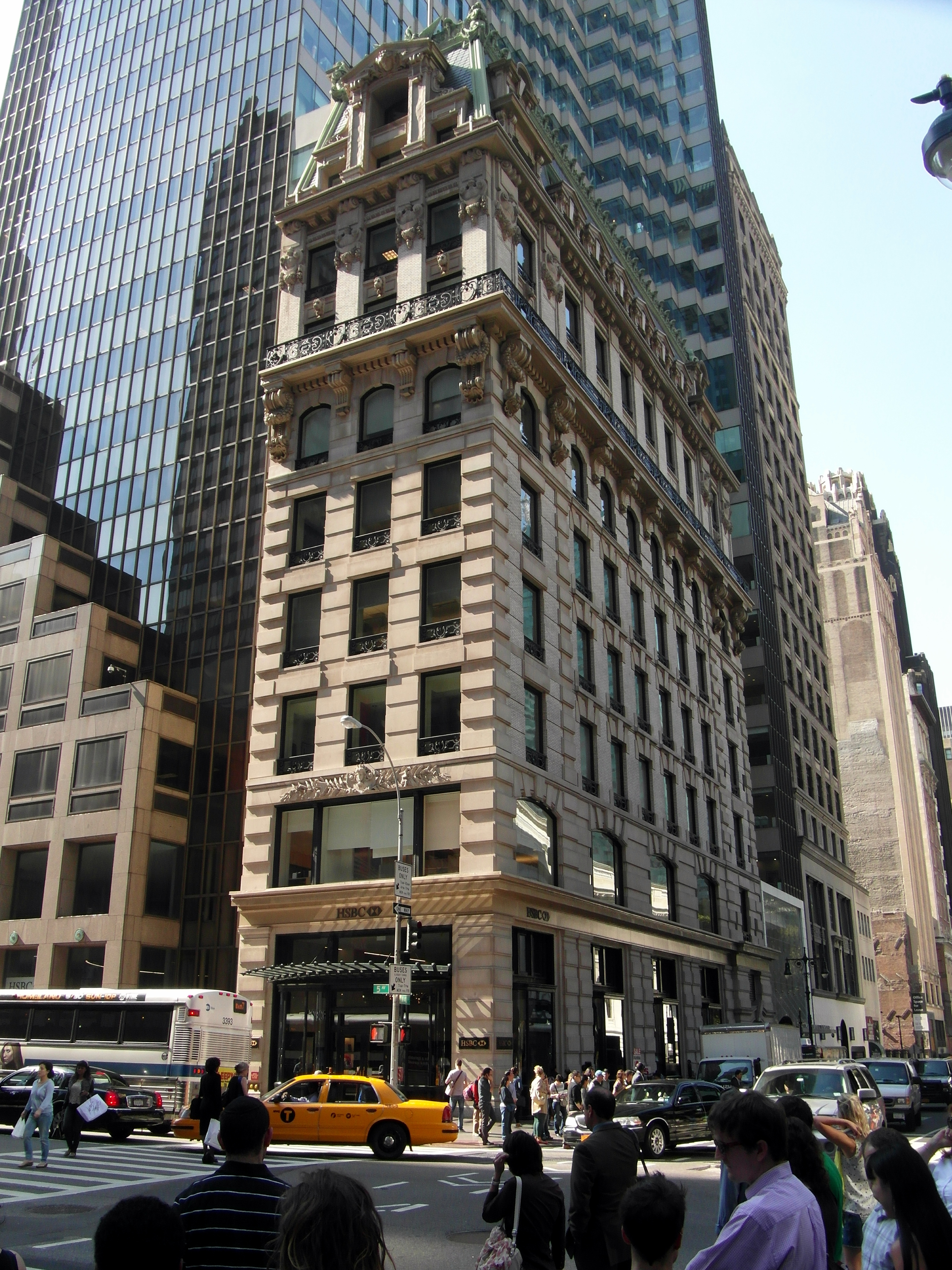 452 Fifth Avenue, New York. Designed by John H Duncan and completed in 1902.